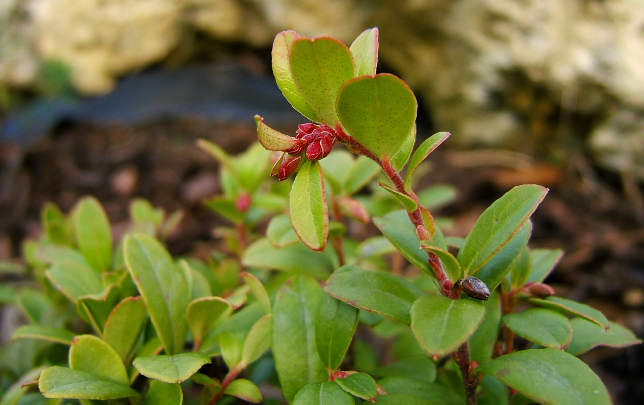 lingonberry, cowberry, foxberry, mountain cranberry, lowbush cranberry, partridgeberry